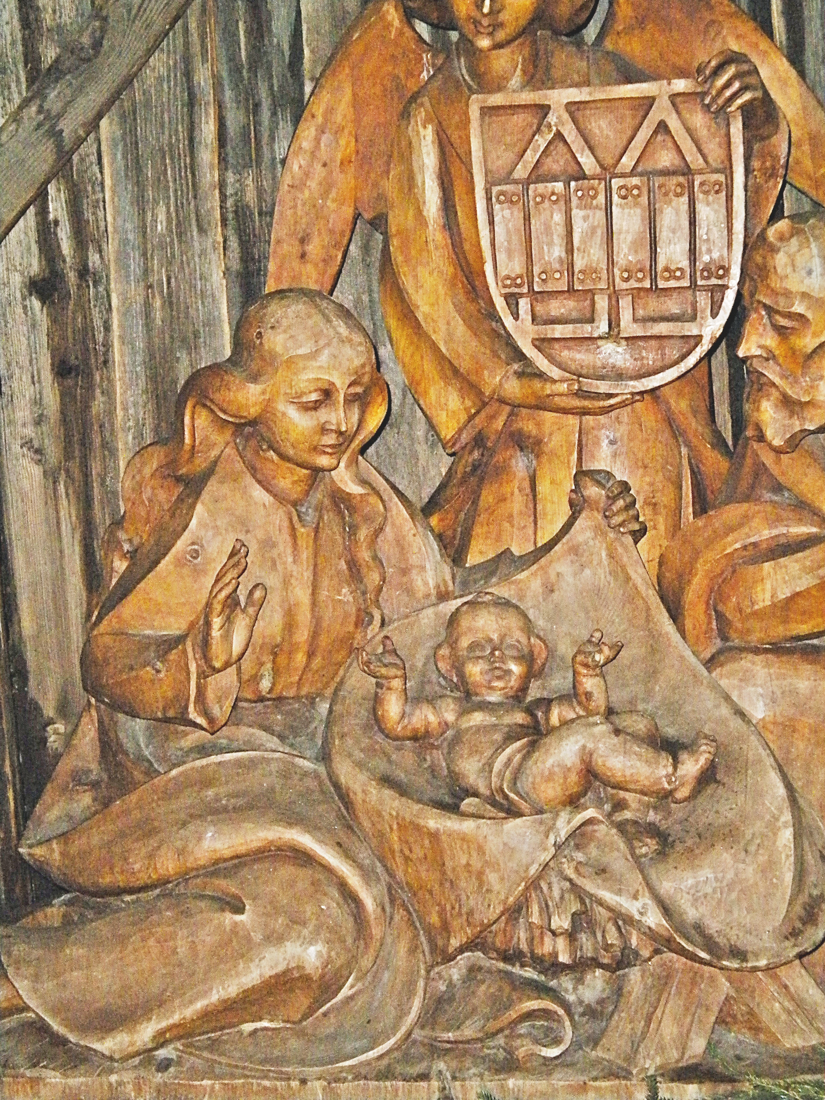 nativity scene of wood in dom square